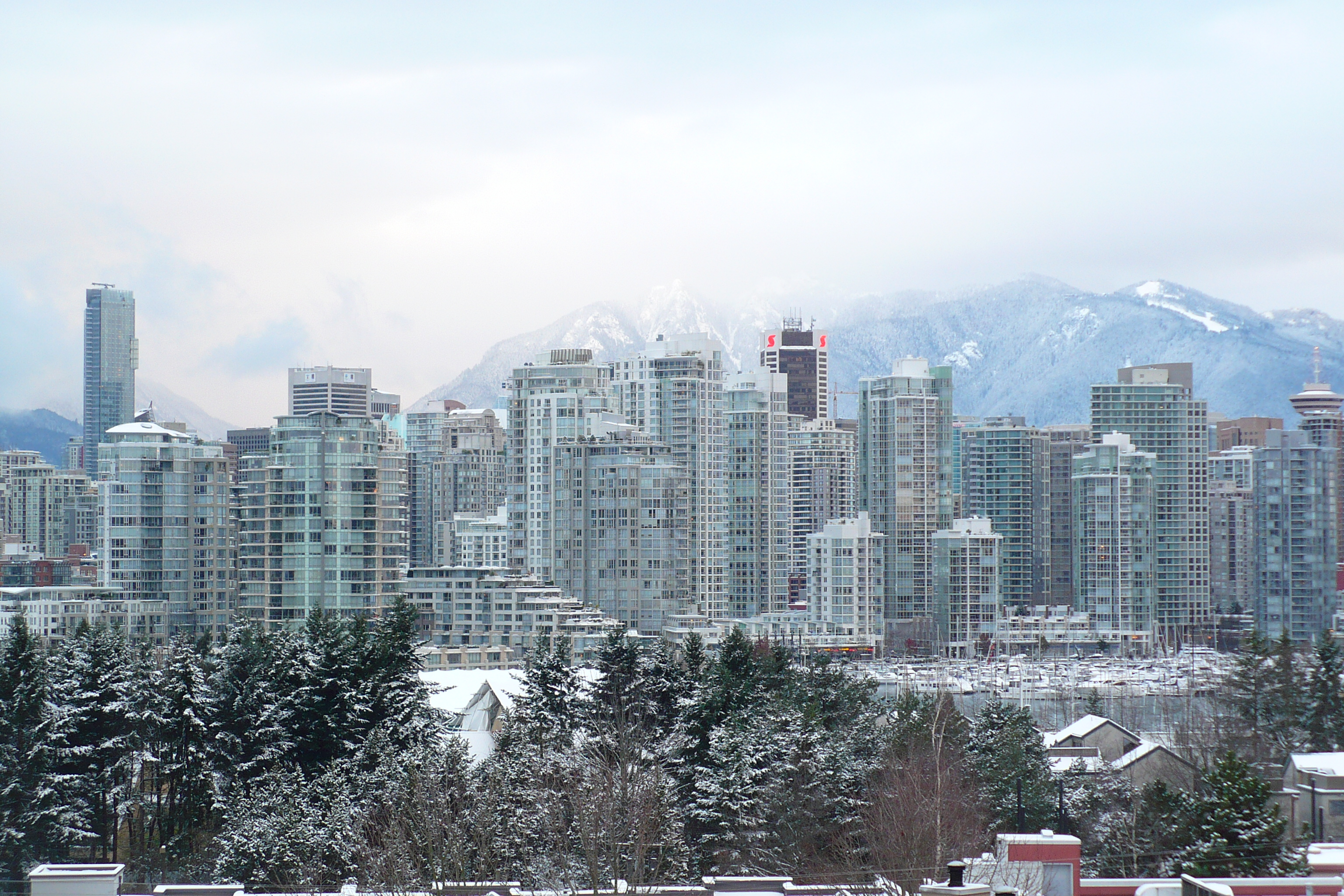 Vancouver in snow